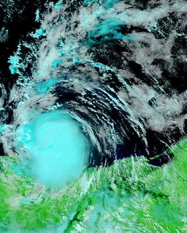 Midget Tropical Storm Marco of 2008 in the Ba of Campeche.